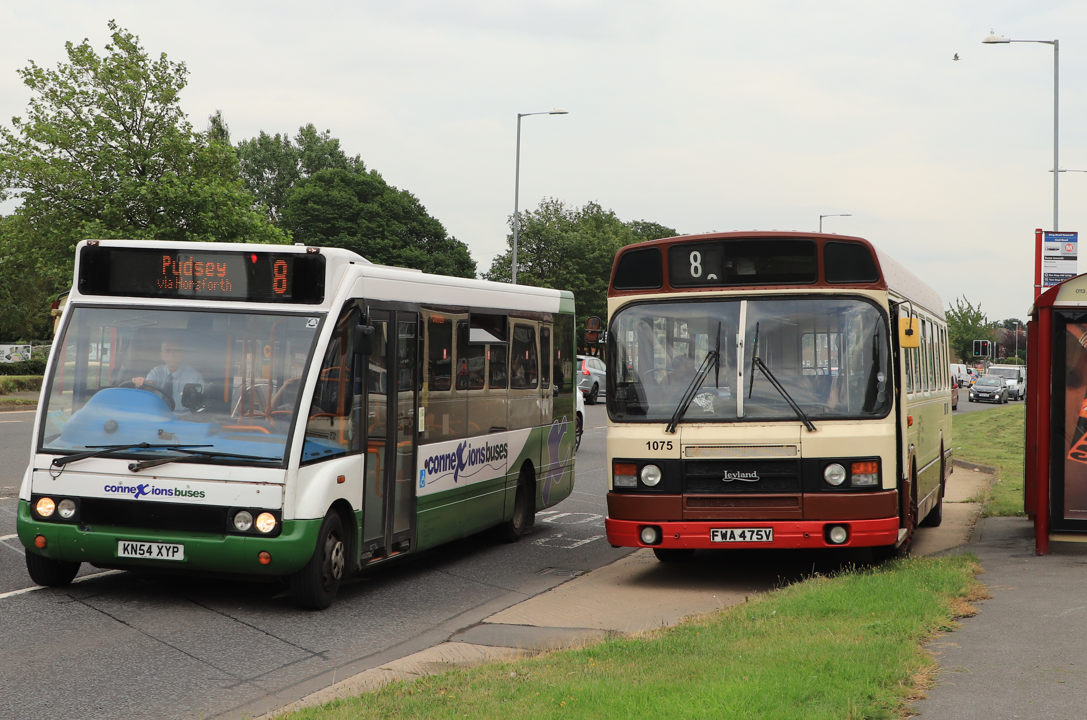 Connexion's preserved Leyland National, FWA 475V, duplicating route 8, for its last day in service. The service bus is provided by KN54 XYP, an Optare Solo